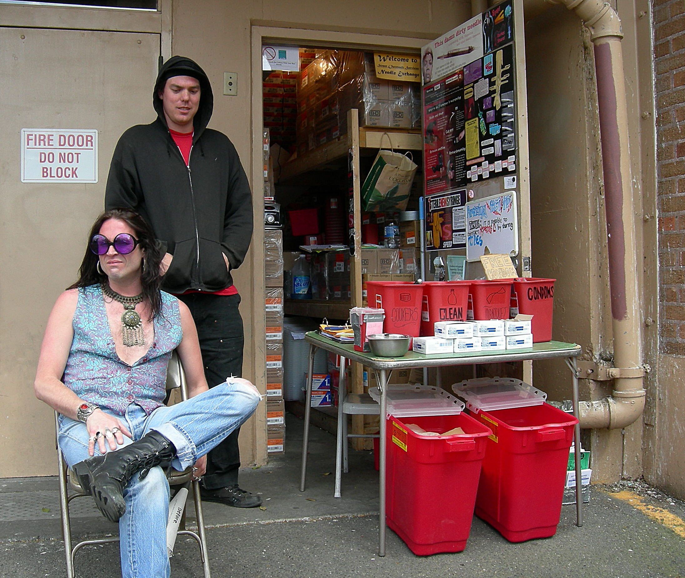 Street Outreach Services needle exchange, on the alley, in back of University Methodist Temple, University District, Seattle, Washington.